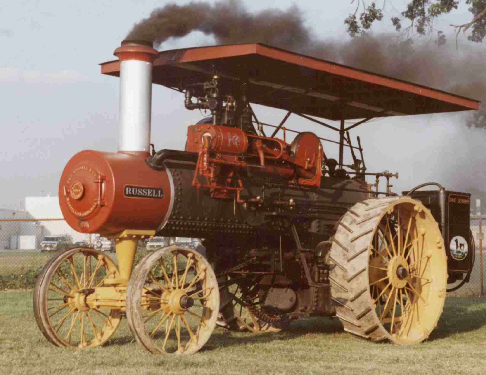 Russel steam tractor built in Massillon Ohio